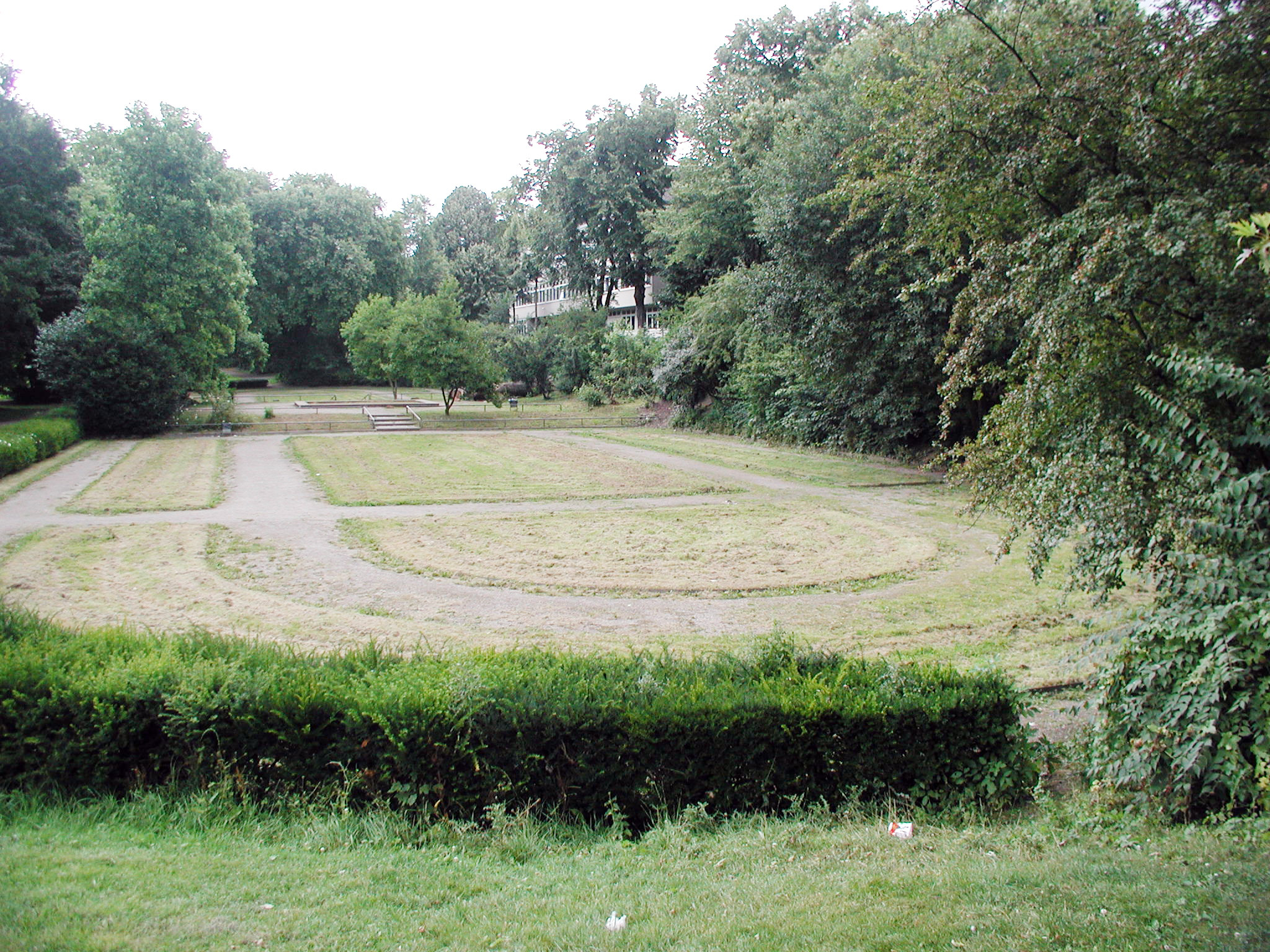 Cologne, previous Rose garden at Köln-Mülheim